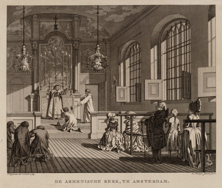 A service of the Armenian Church. Print by C. Philips Jacobsz. and P. Wagenaar, 1783. Collection CITY ARCHIVES AMSTERDAM.